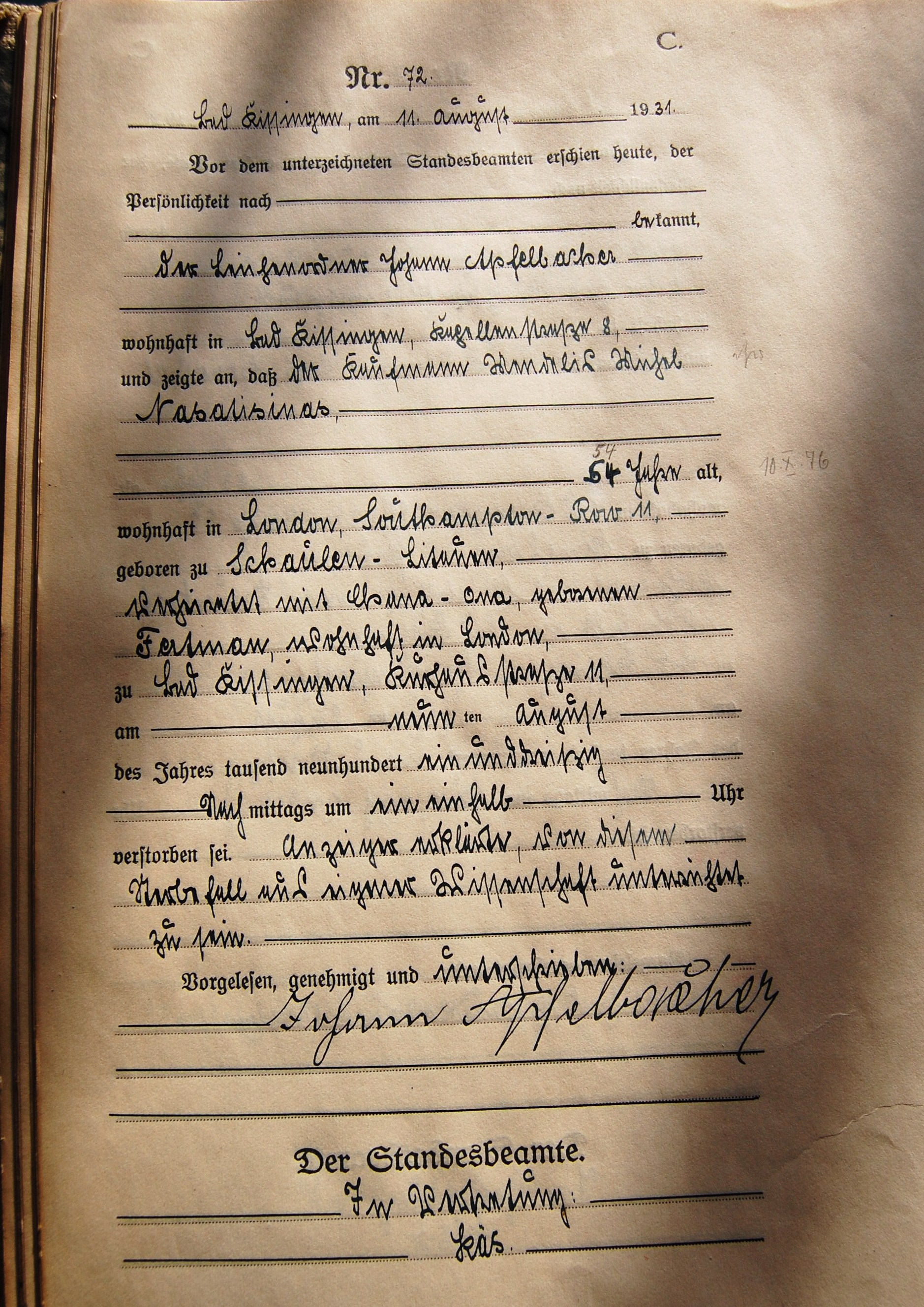 Death record of Michael Nassatisin (1876-1931), merchant in London